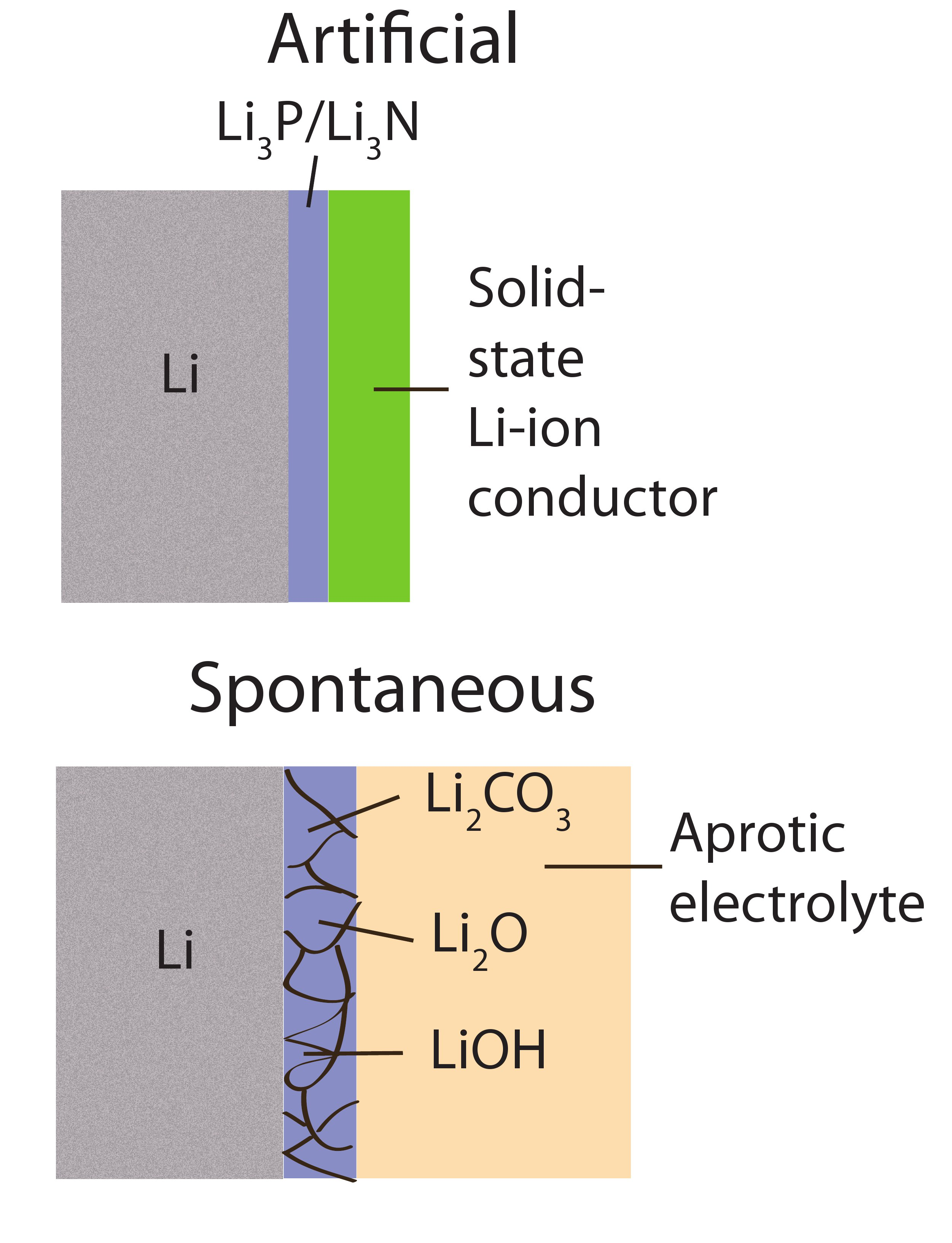 Schematic of the solid-electrolyte interface in a lithium-air battery.